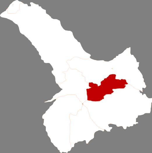 Locator map of Horqin District in Tongliao, Inner Mongolia, China